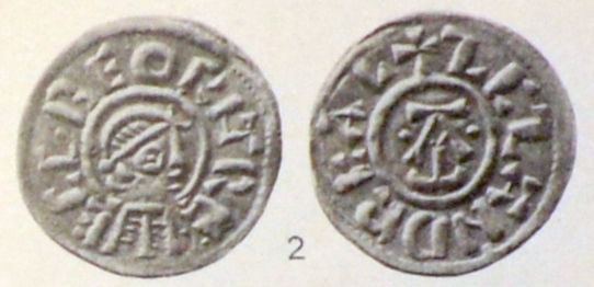 Coin of King Egbert of Wessex